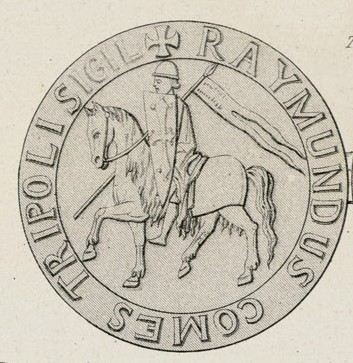 Seals